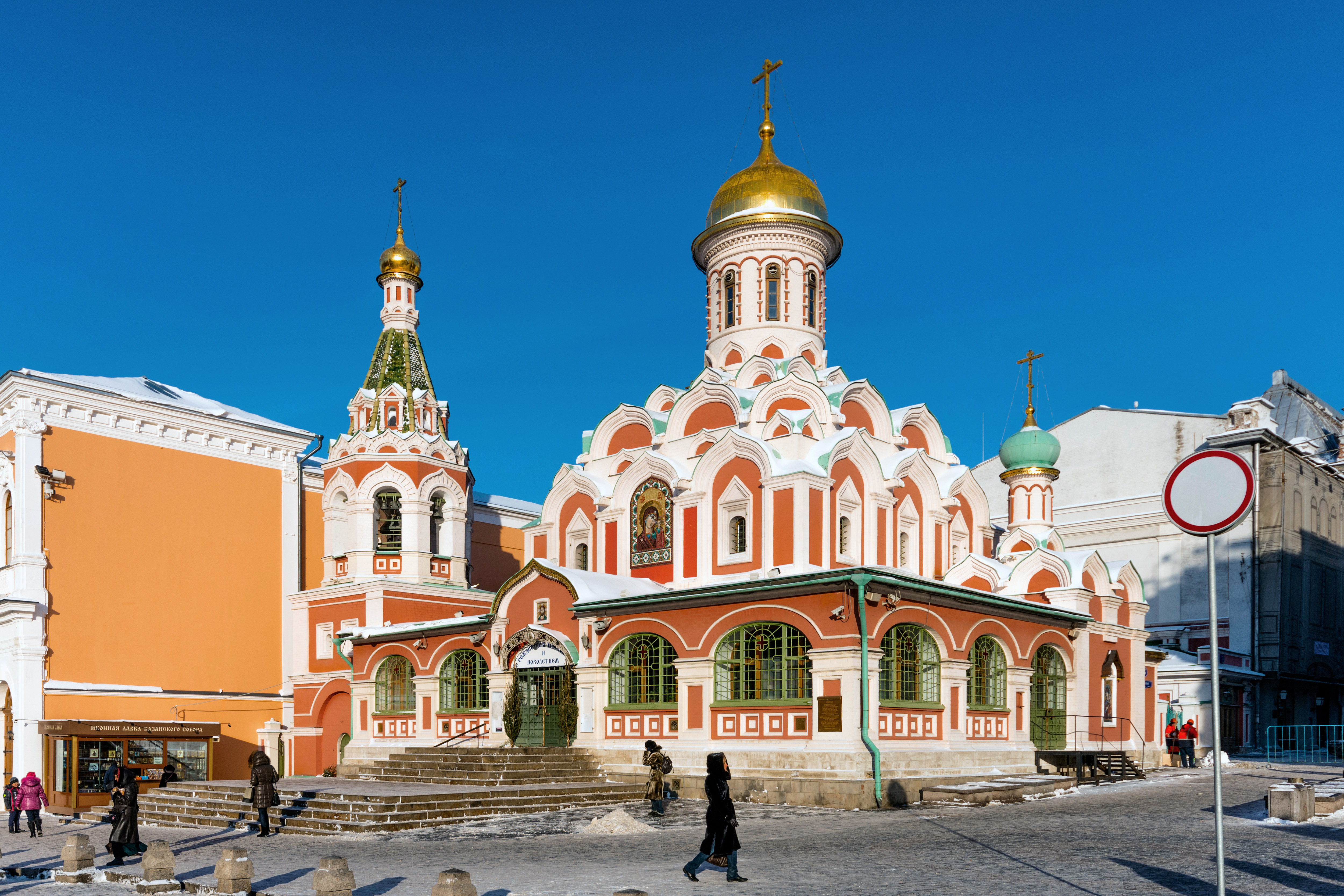 Kazansky Cathedral in Moscow